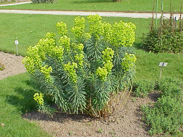 Species: Euphorbia characias Family: Euphorbiaceae Image No. 4